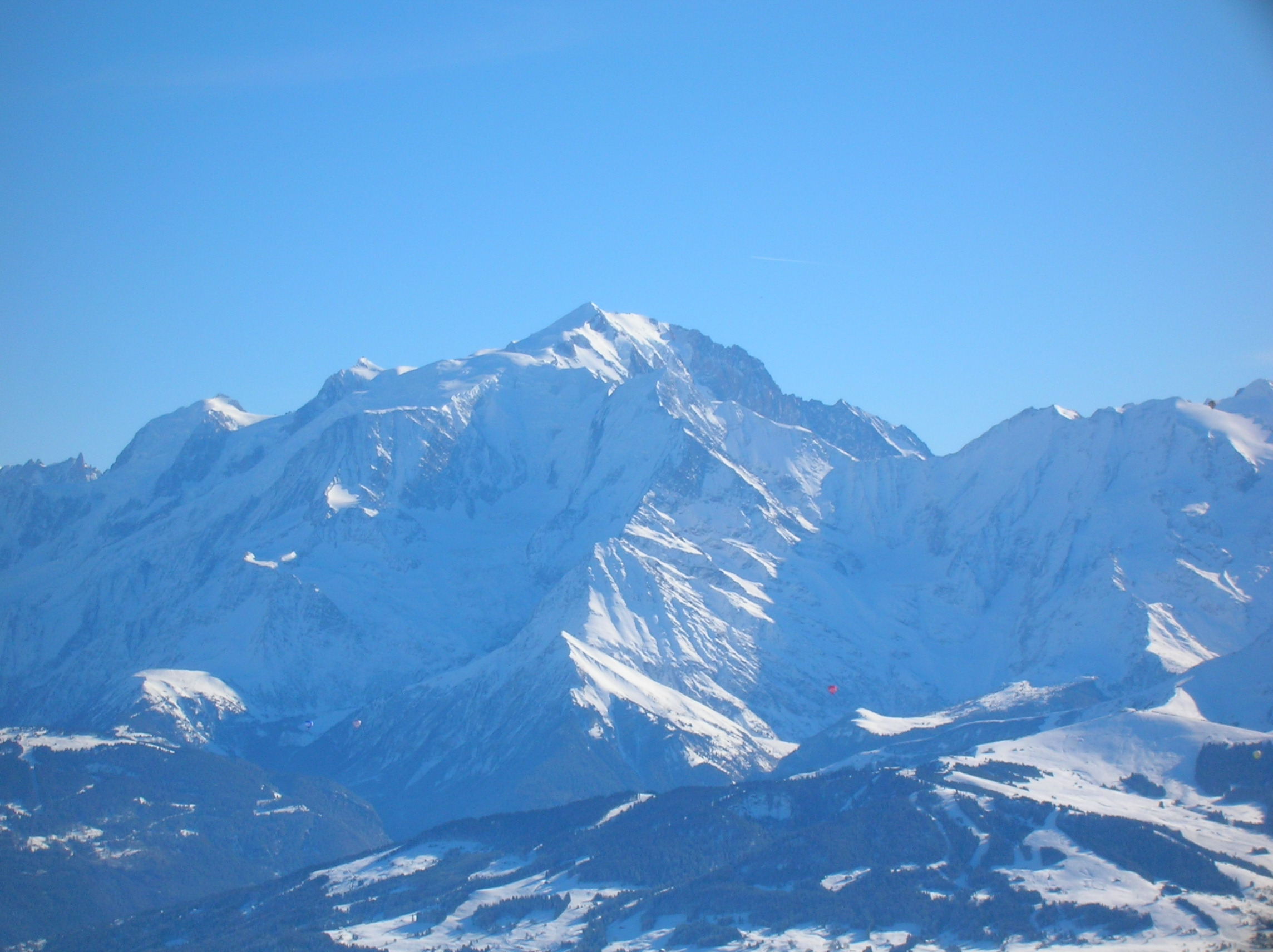 Mt-Blanc seen from the Massif de la Balme (La Clusaz)